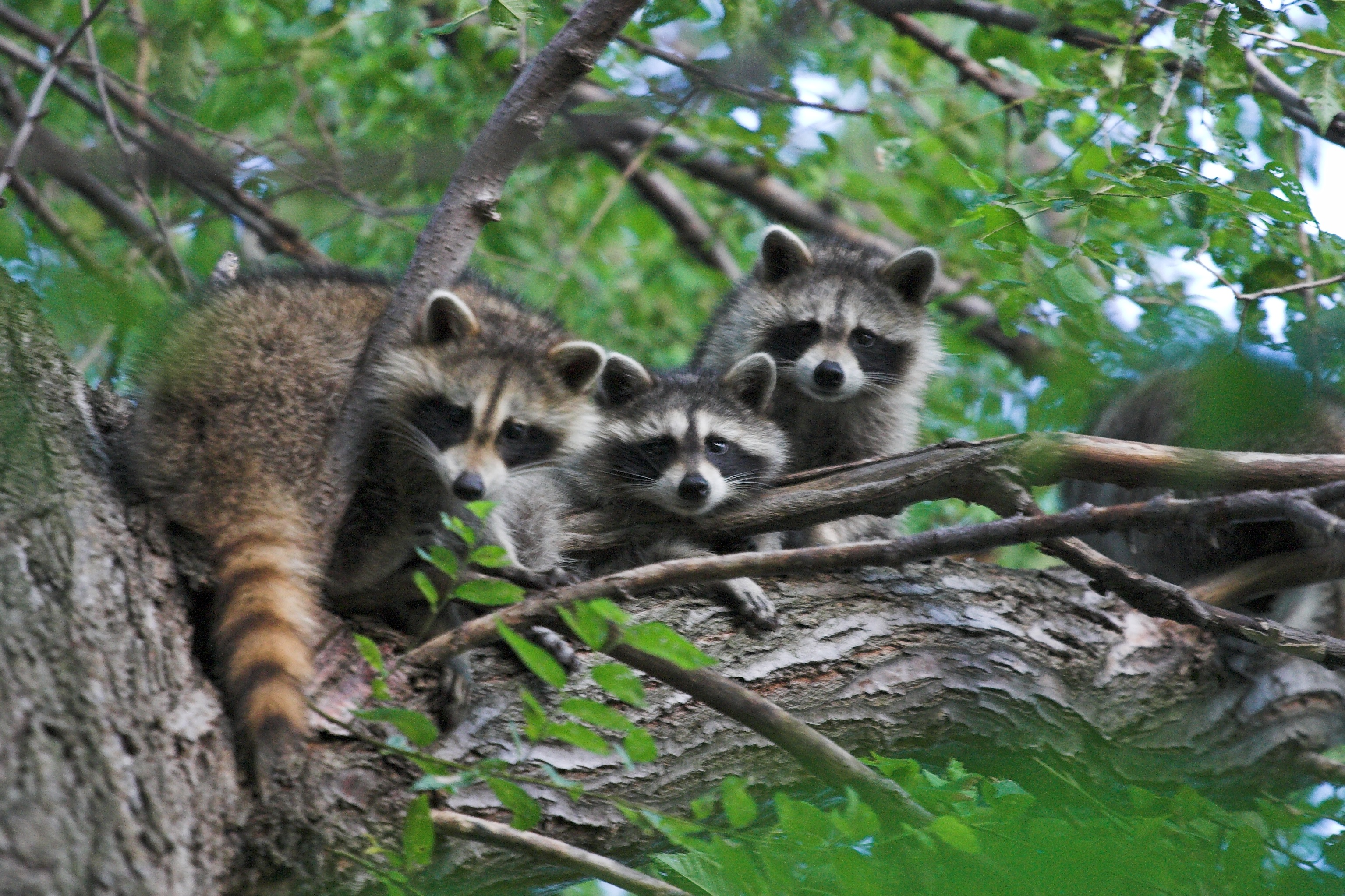 Raccoons in a tree. Toronto, Canada.